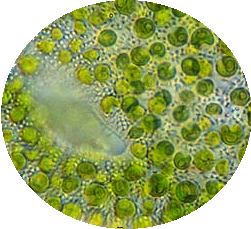 A microscopic view of the alga Chlorella.